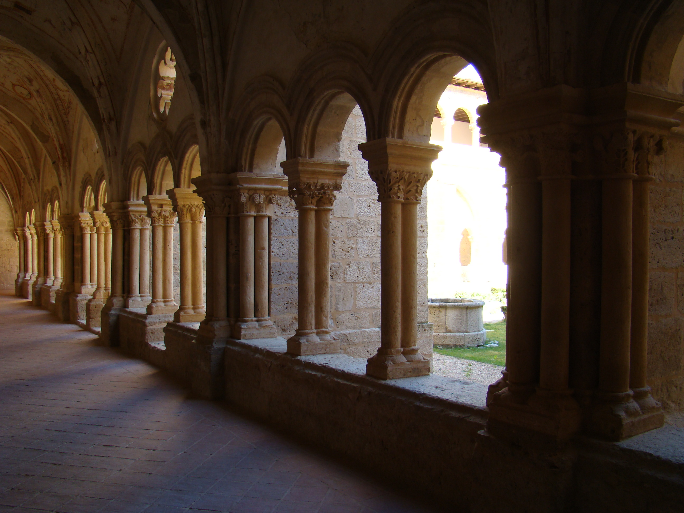 Romanic cloister of the monastery of Santa María de Valbuena, in the province of Valladolid (Spain).